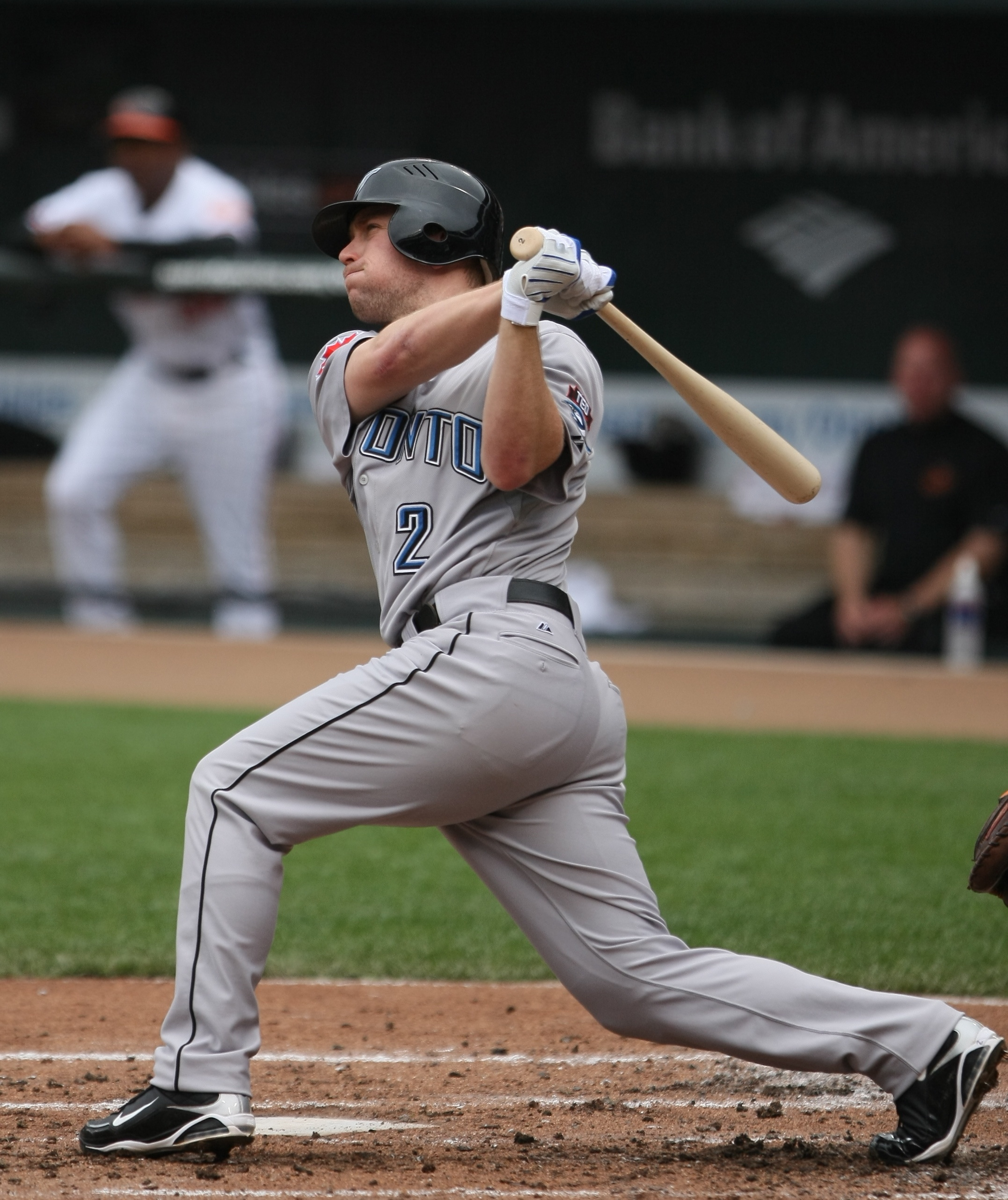 Aaron Hill swinging at a pitch in 2009